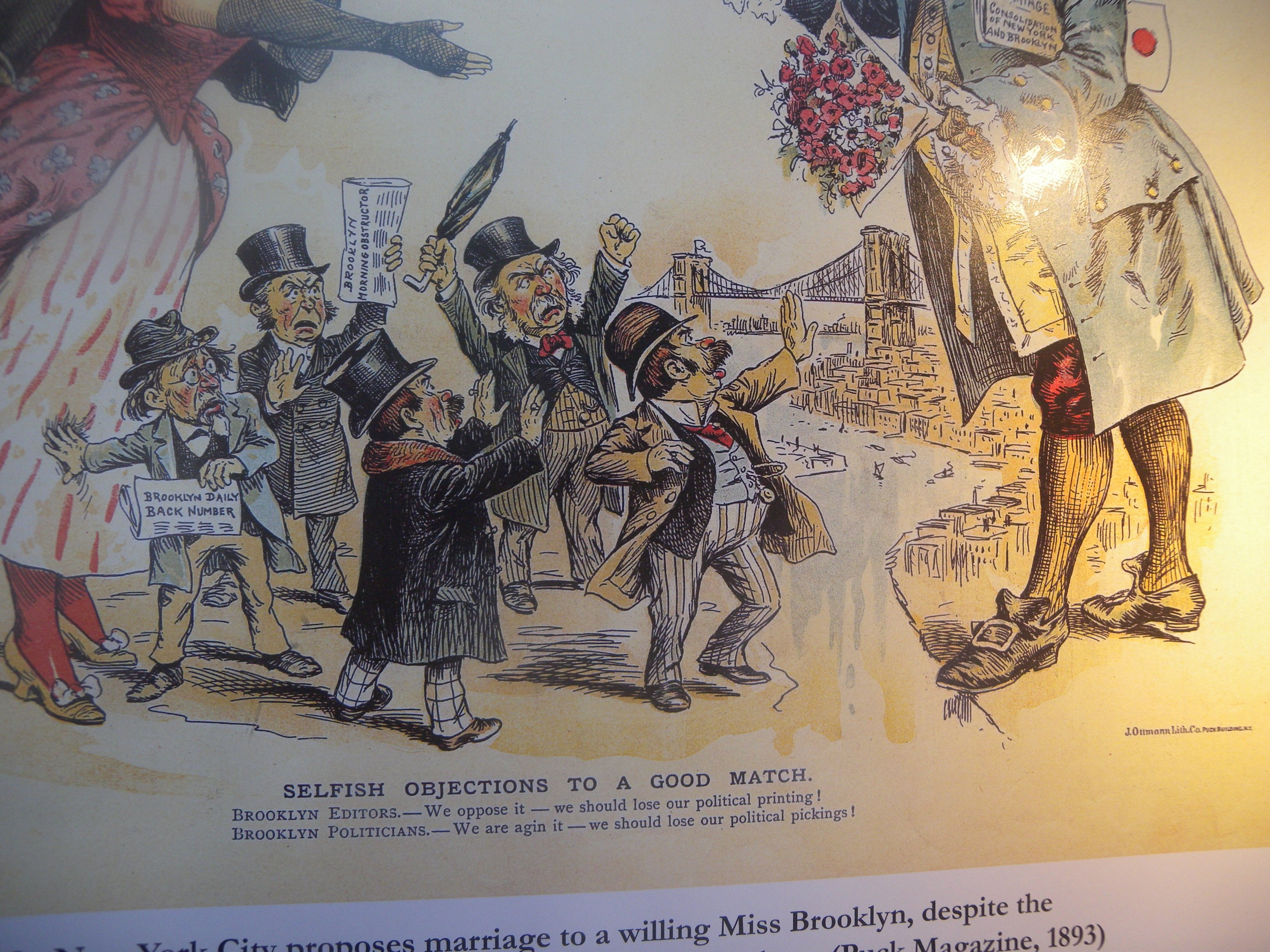 Cartoon blaming selfishness for opposition to amalgamation between Brooklyn and New York.